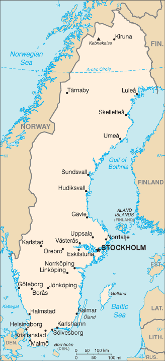 A map of Sweden, showing major cities.